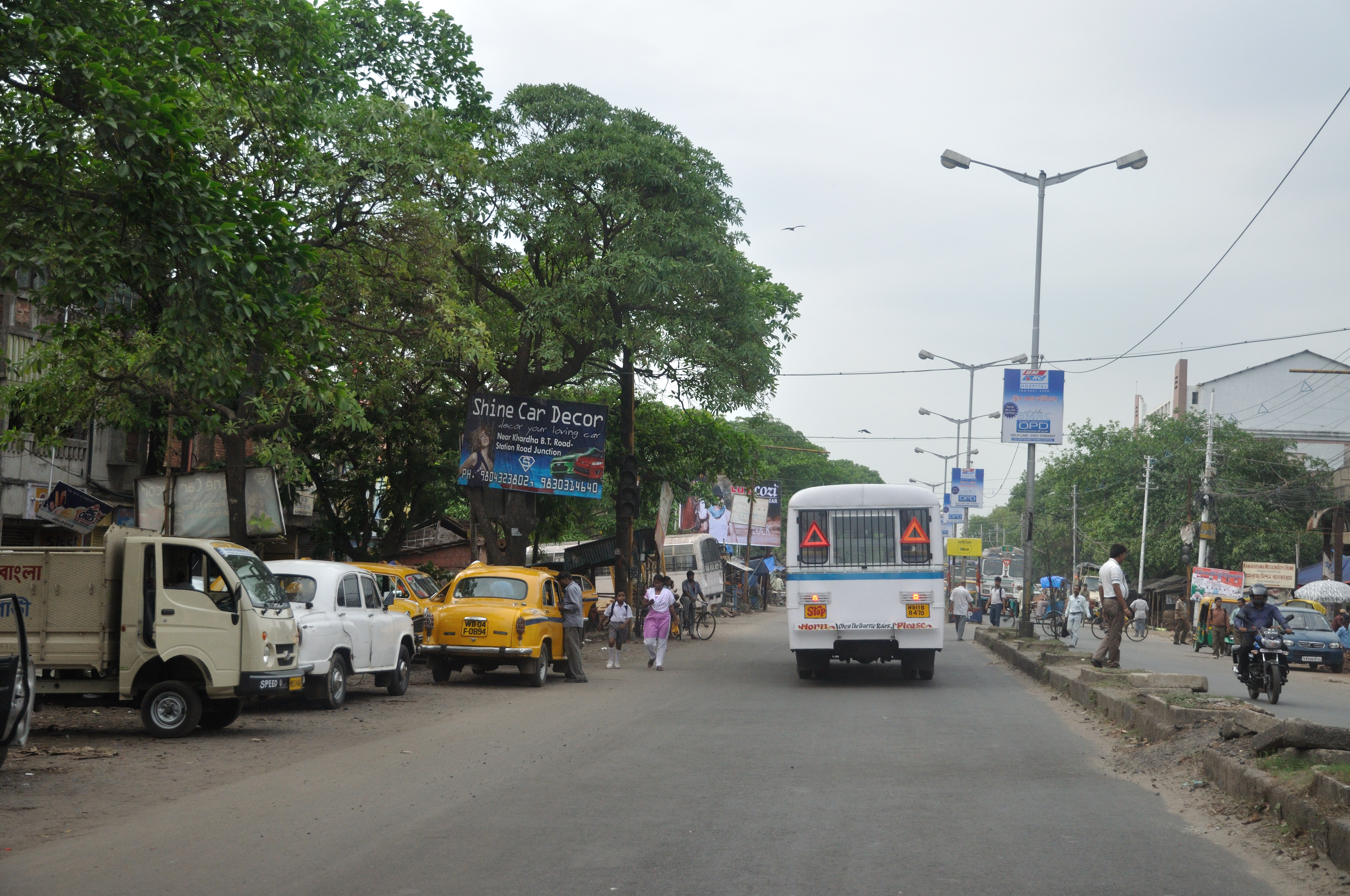 Photographed in greater Kolkata.